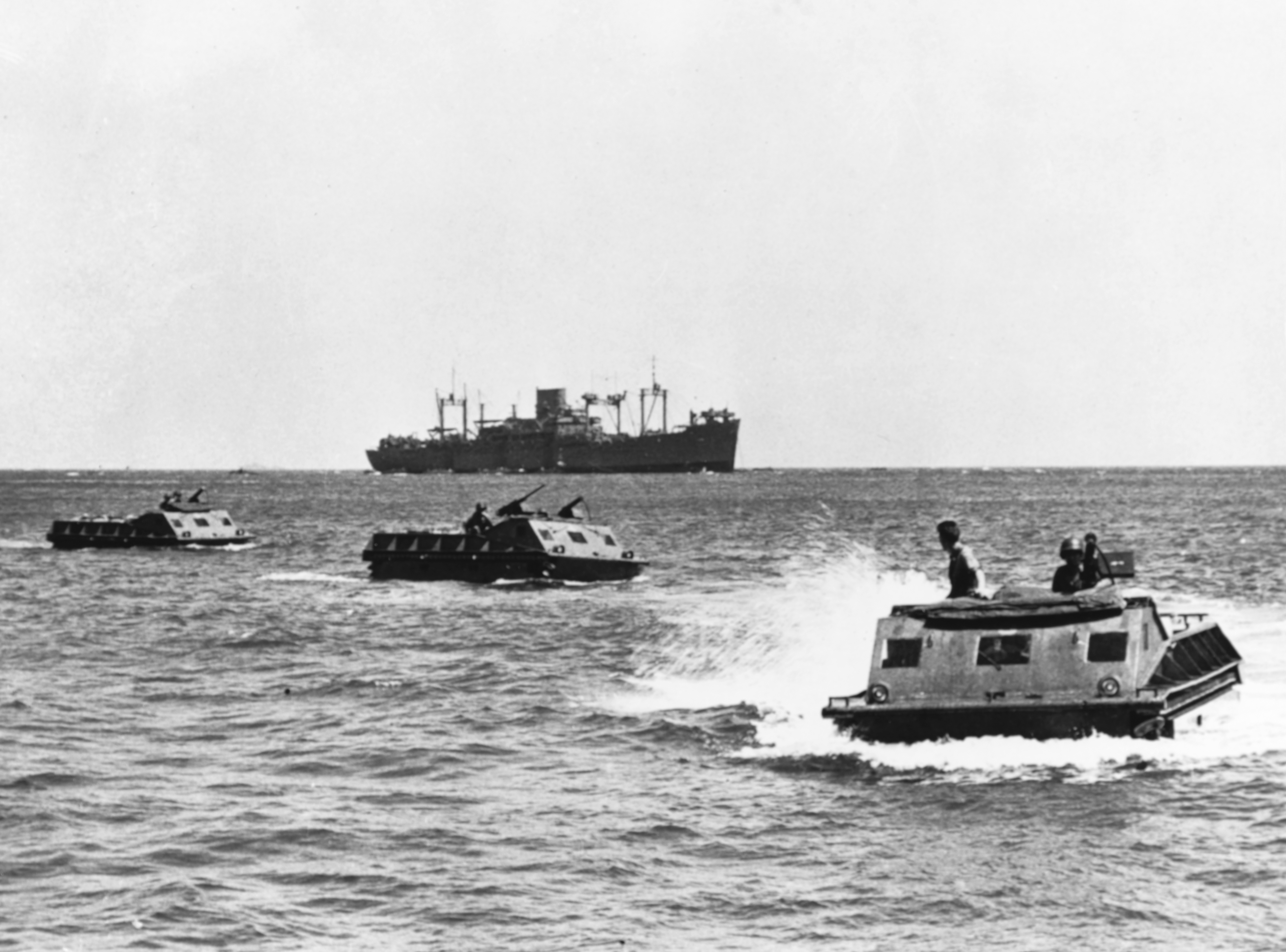 U.S. Marine Corps LVT(1) amphibian tractors move toward the beach on Guadalcanal Island. This view was probably taken during the 7-9 August 1942 initial landings on Guadalcanal. The troopship USS President Hayes (AP-39) is in the background.